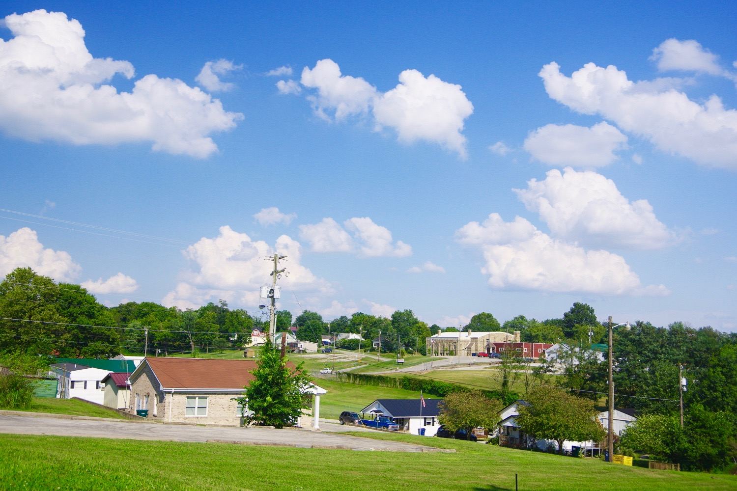 Sharpsburg, Kentucky, United States, viewed from the corner of Main and Oak Street.